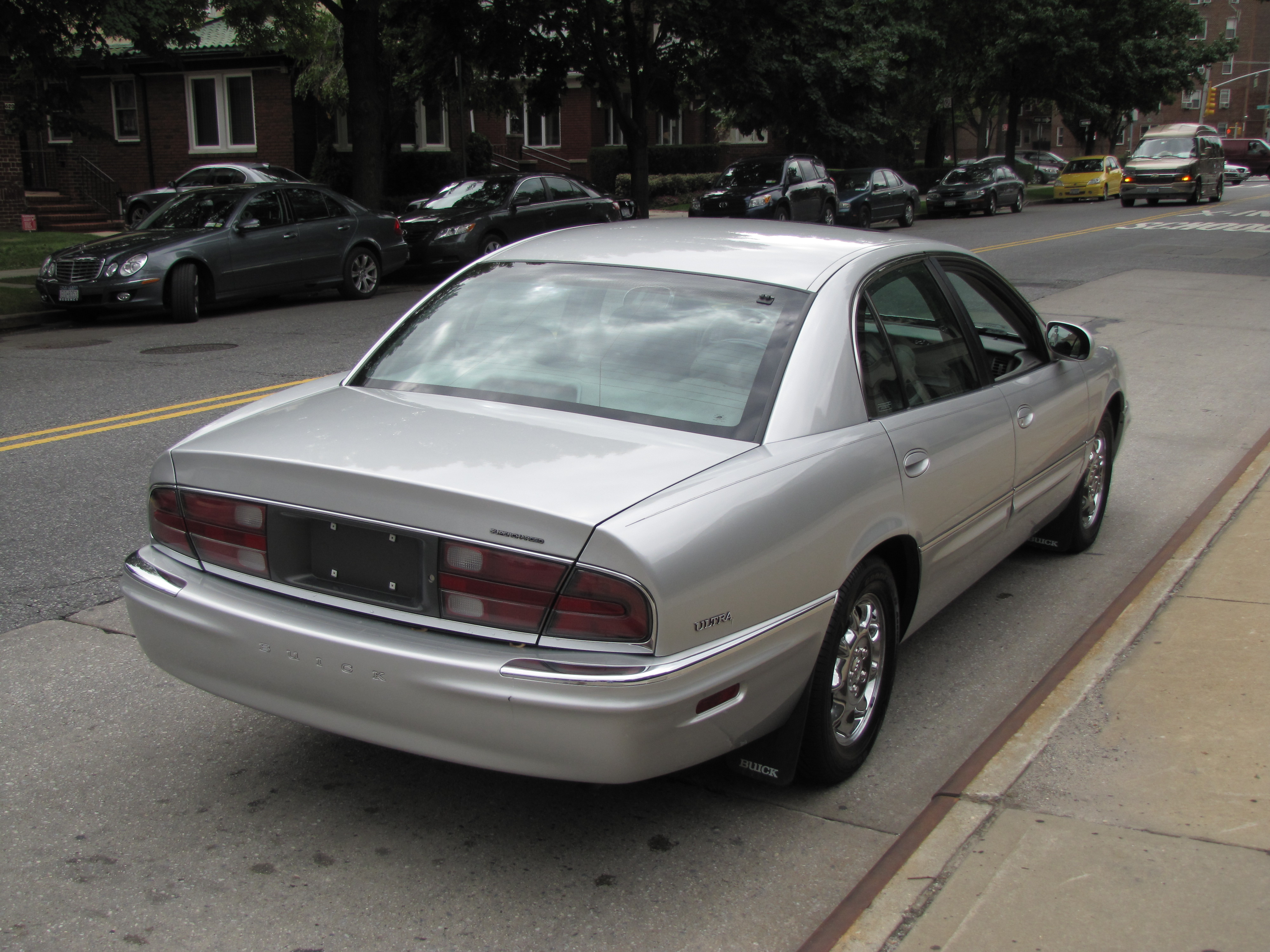 Nacmias Auto Dealer 1249 Coney Island Avenue Brooklyn, NY 11230 Phone: 718-377-6159